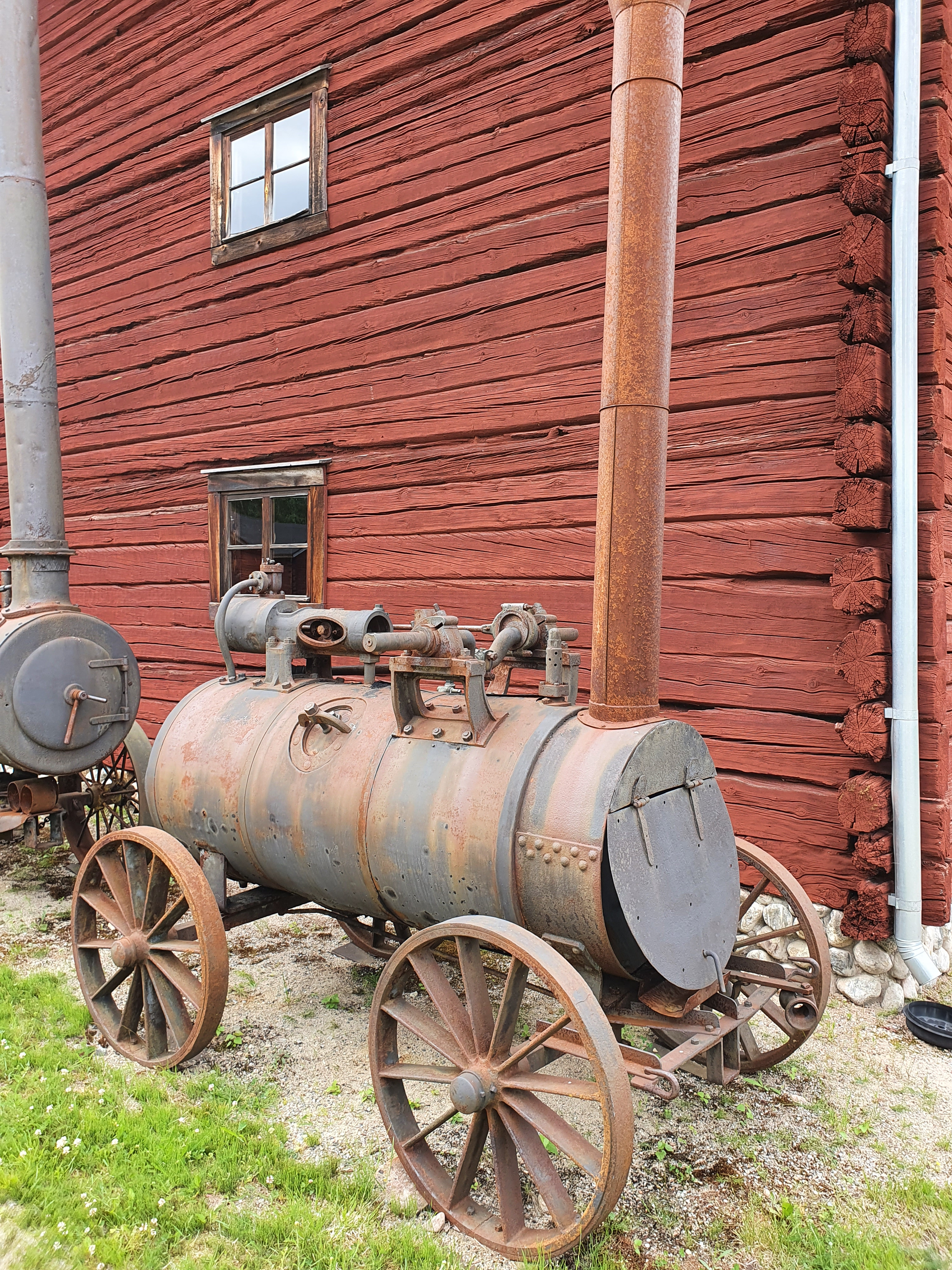 A steam-powered locomobil built by Jakobsson's factory in Pori, Finland.